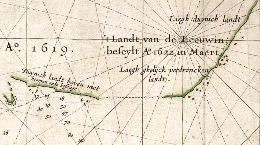 This is an image showing detail of the National Library of Australia's copy of Hessel Gerritsz' 1627 map of the west coast of Australia entitled "Caert van't Landt van d'Eendracht". This detail shows a section of coastline discovered by the Leeuwin in 1622, and subsequently referred to by the Dutch as 't Landt van de Leeuwin ("The Land of the Leeuwin")